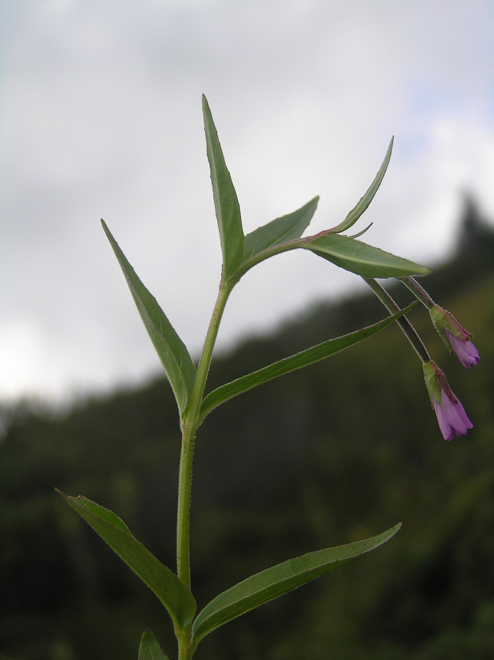 Epilobium alsinifolium, Modrý důl, Krkonoše Mountains, Czech Republic